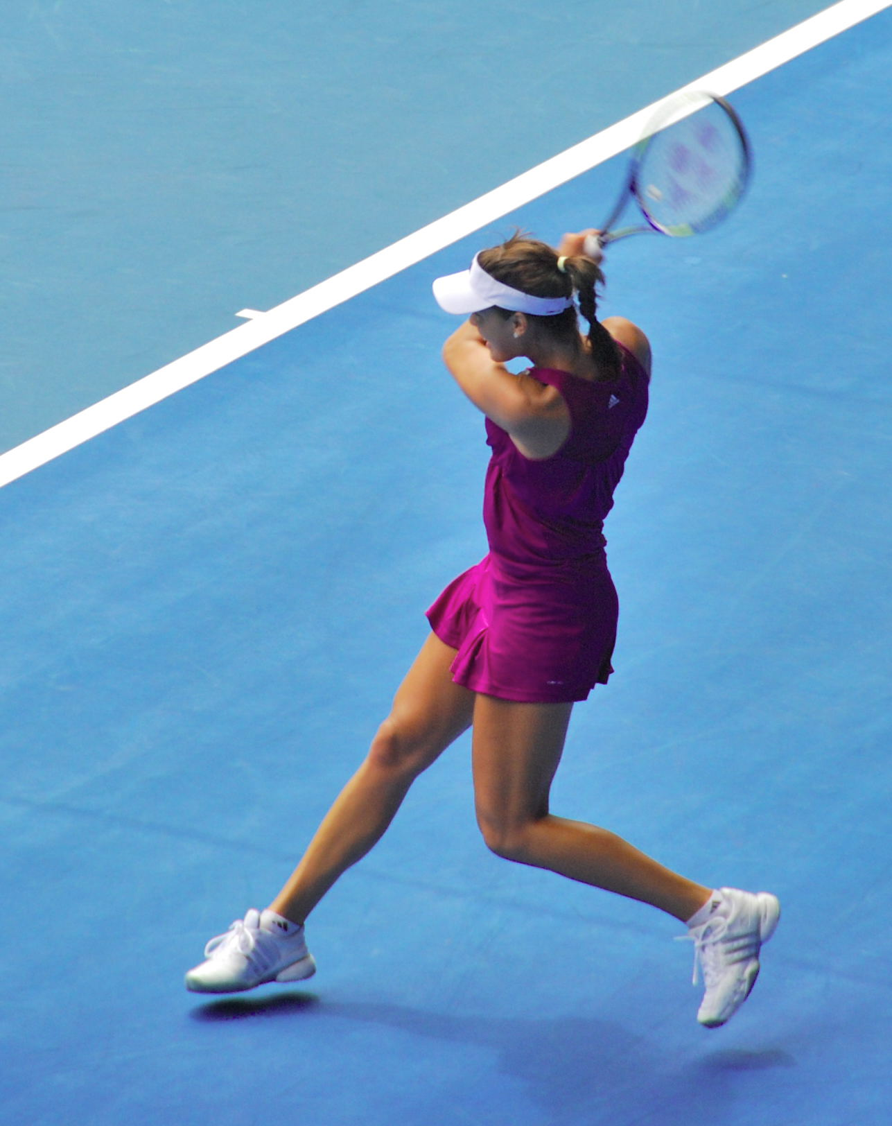 Ana Ivanovic playing at 2009 Australian Open.